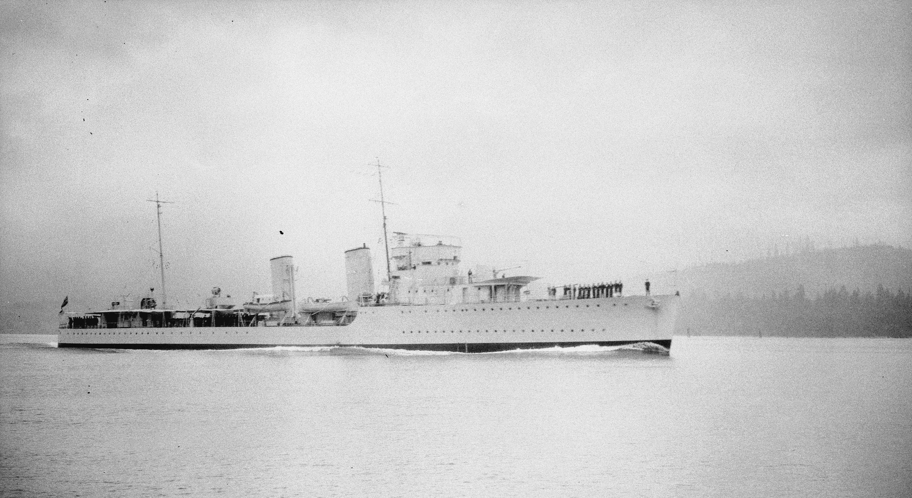 en:HMCS Skeena (D59)]|HMCS Skeena at Vancouver.